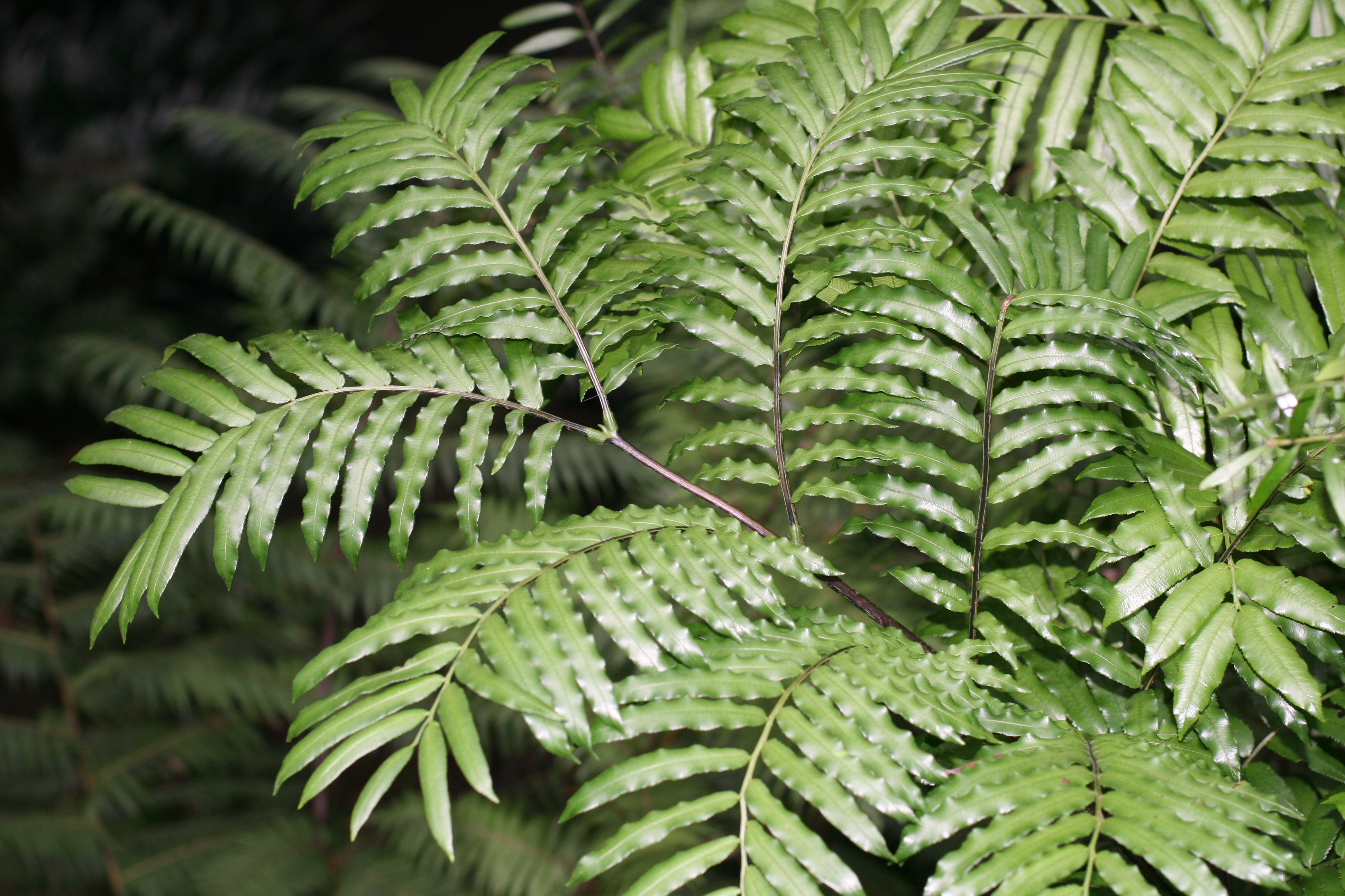 Marattia salicina, King fern, Auckland, New Zealand. A large fern native to New Zealand and the South Pacific